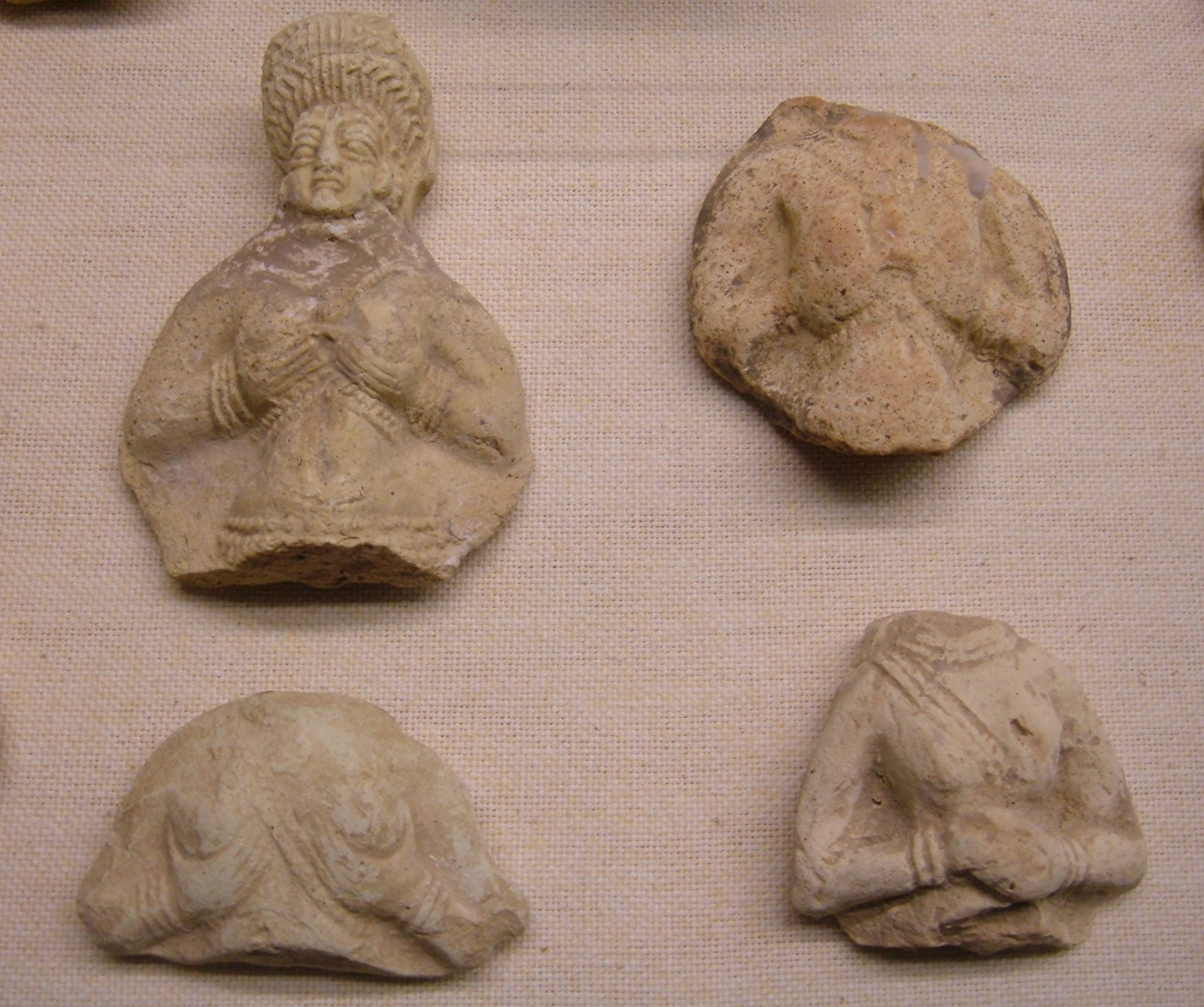 Fragments of clay statues of Ishtar (ca. 1,000 BCE) from Marlik at the Rosicrucian Egyptian Museum in San Jose, California. Small statues of the goddess were often broken and buried before the doorway of a newly married couple's household as a good luck ritual.